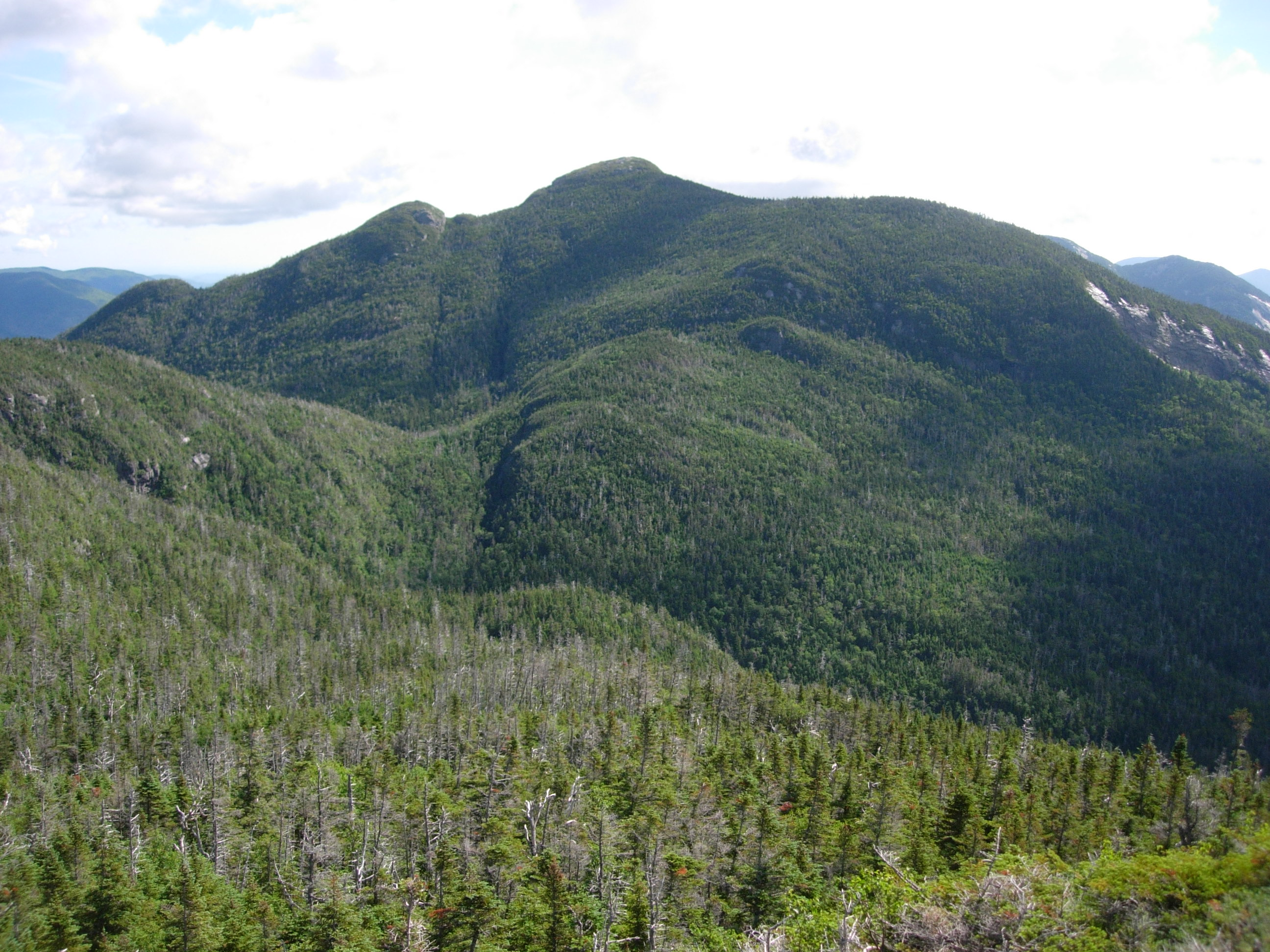 Basin Mountain in Adirondack Park, New York, USA. Photograph of Basin Mtn. from Haystack taken 7/14/07.